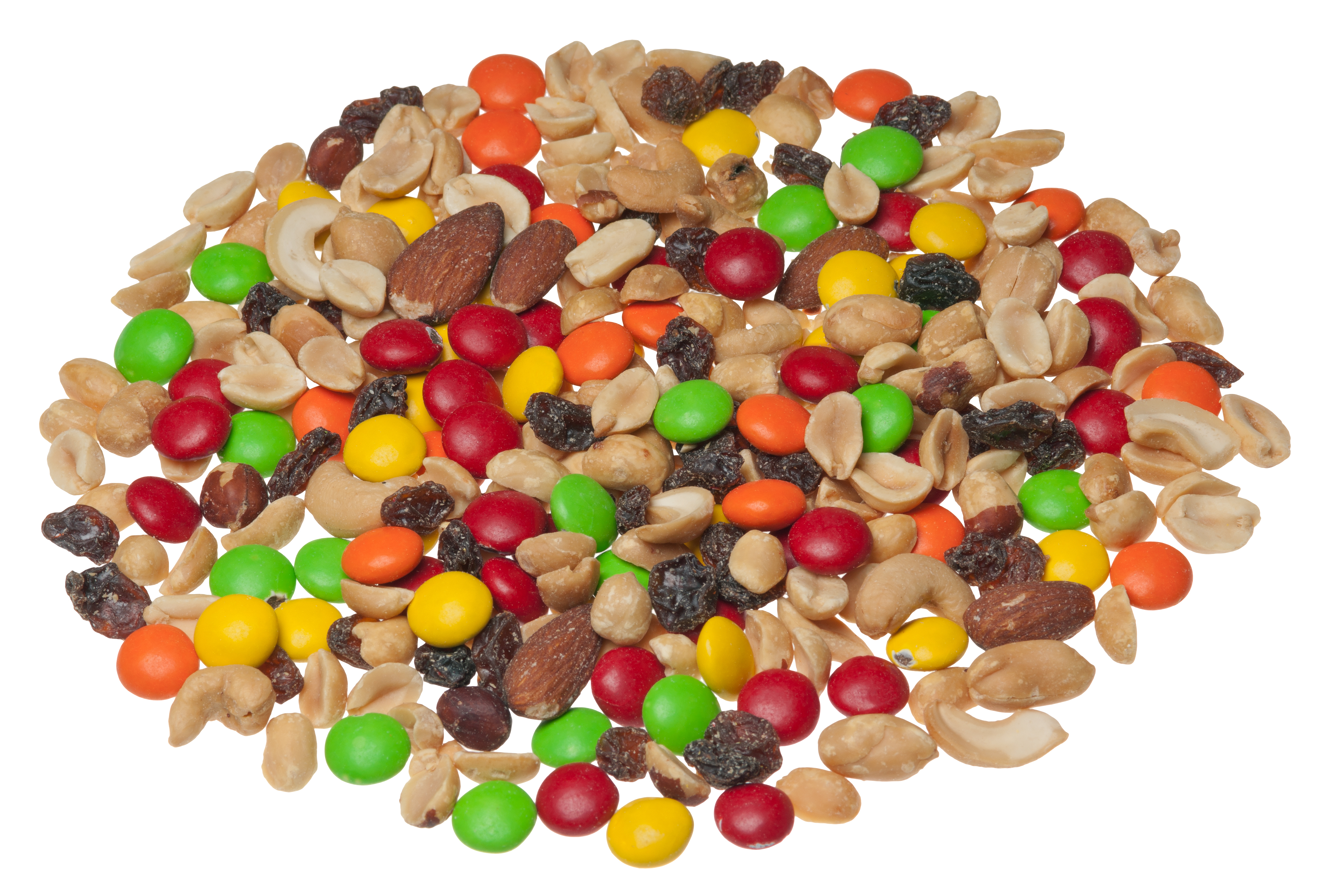 A pile of Planter's brand trail mix, with peanuts, cashews, M&Ms and almonds.